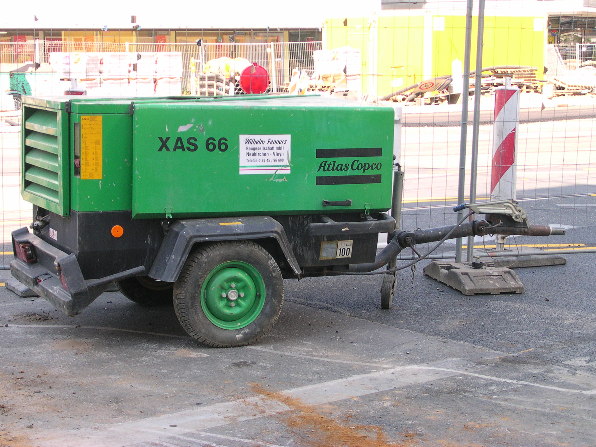 green Atlas compressor XAS 66